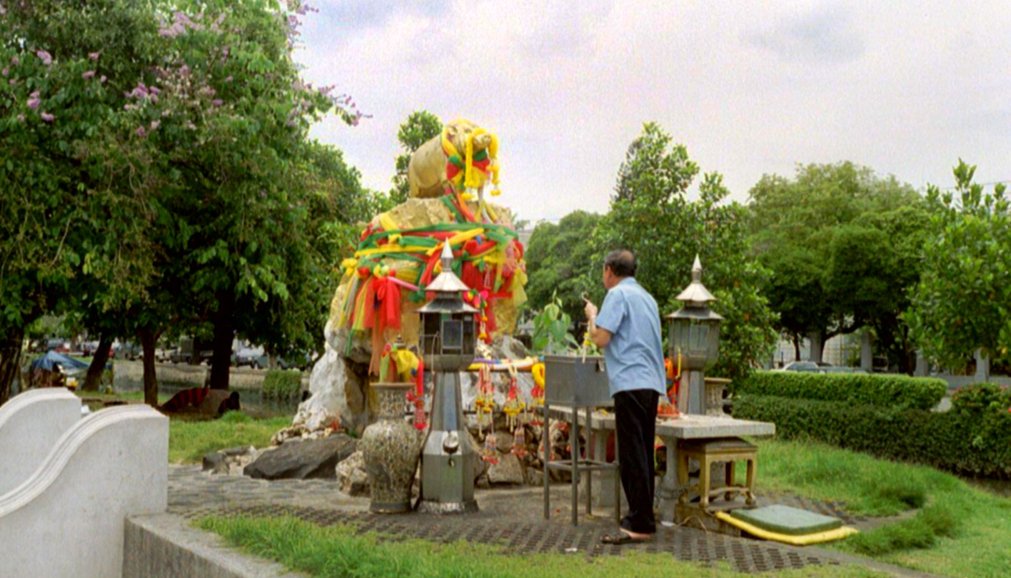 Pig Monument